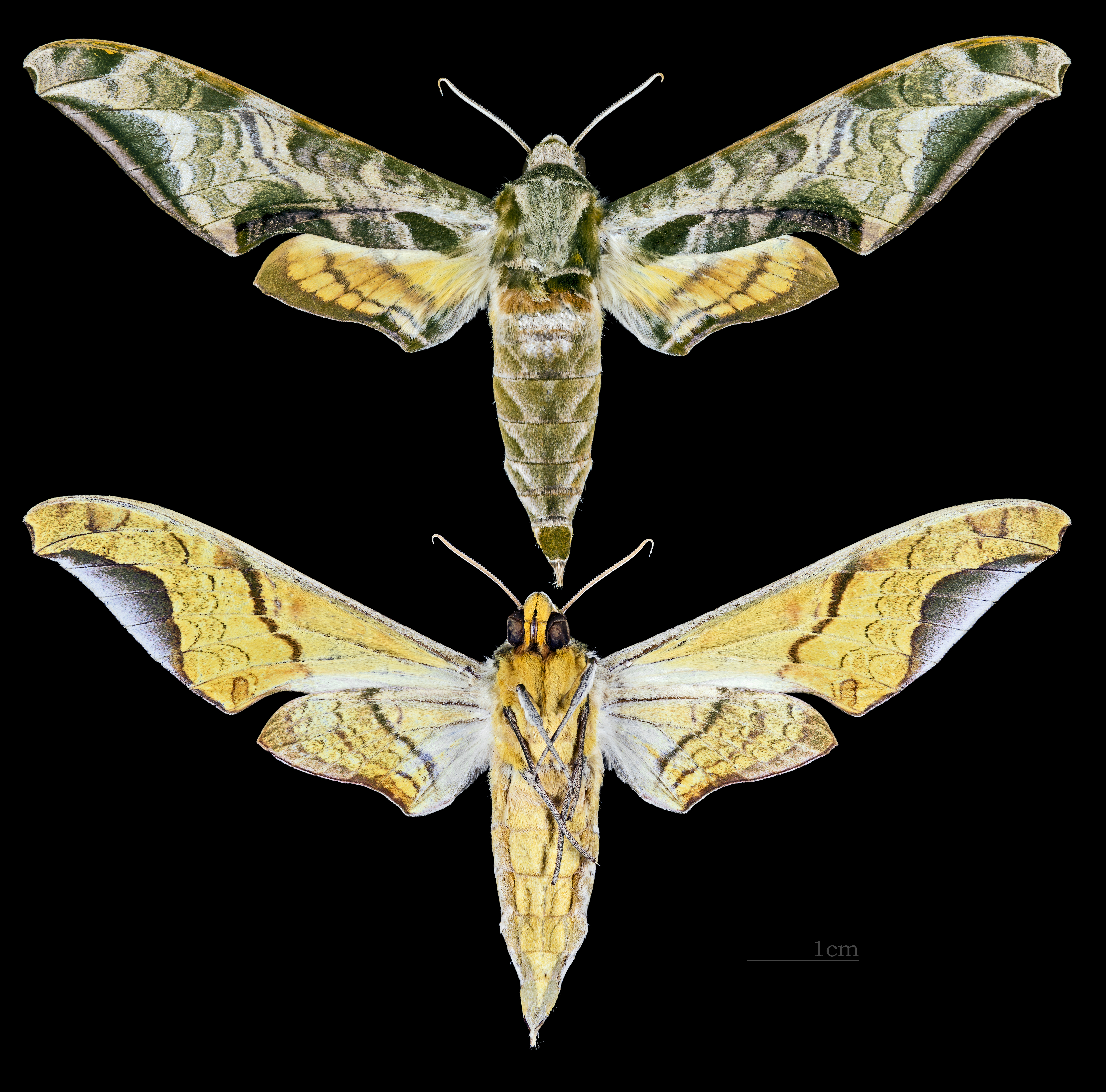 Protambulyx astygonus - Two views of same specimen Collection of the Mathematician Laurent Schwartz